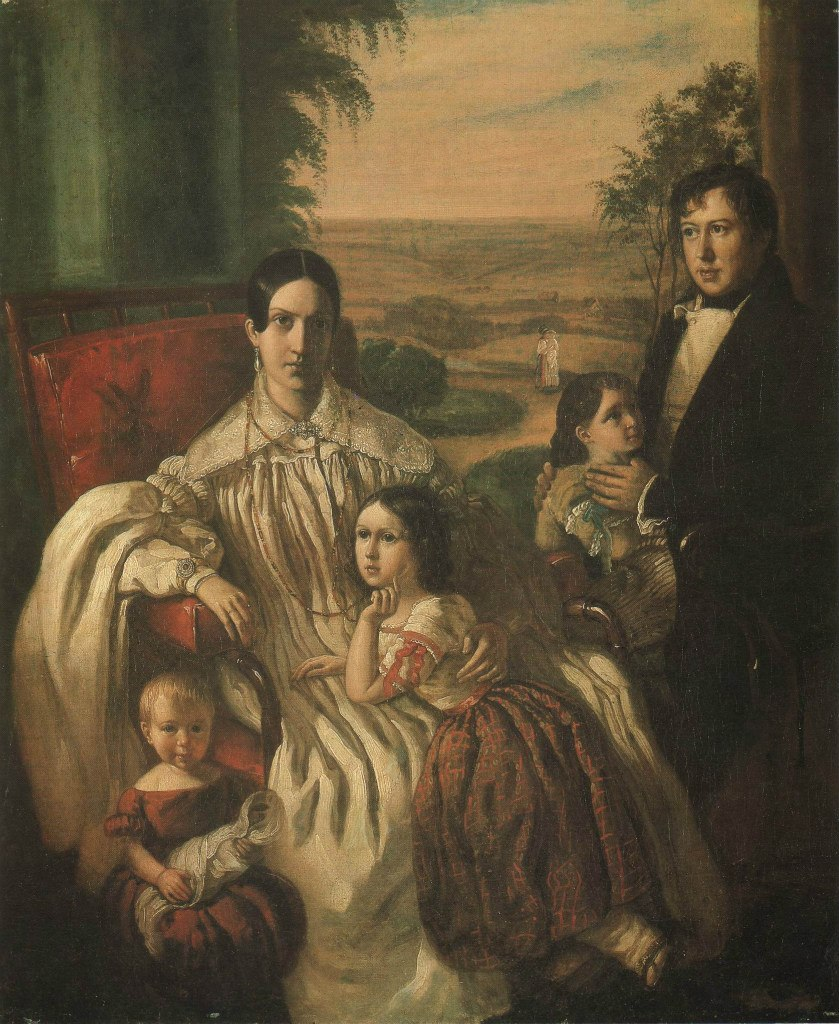 Naschekin Pavel Voinovich with family